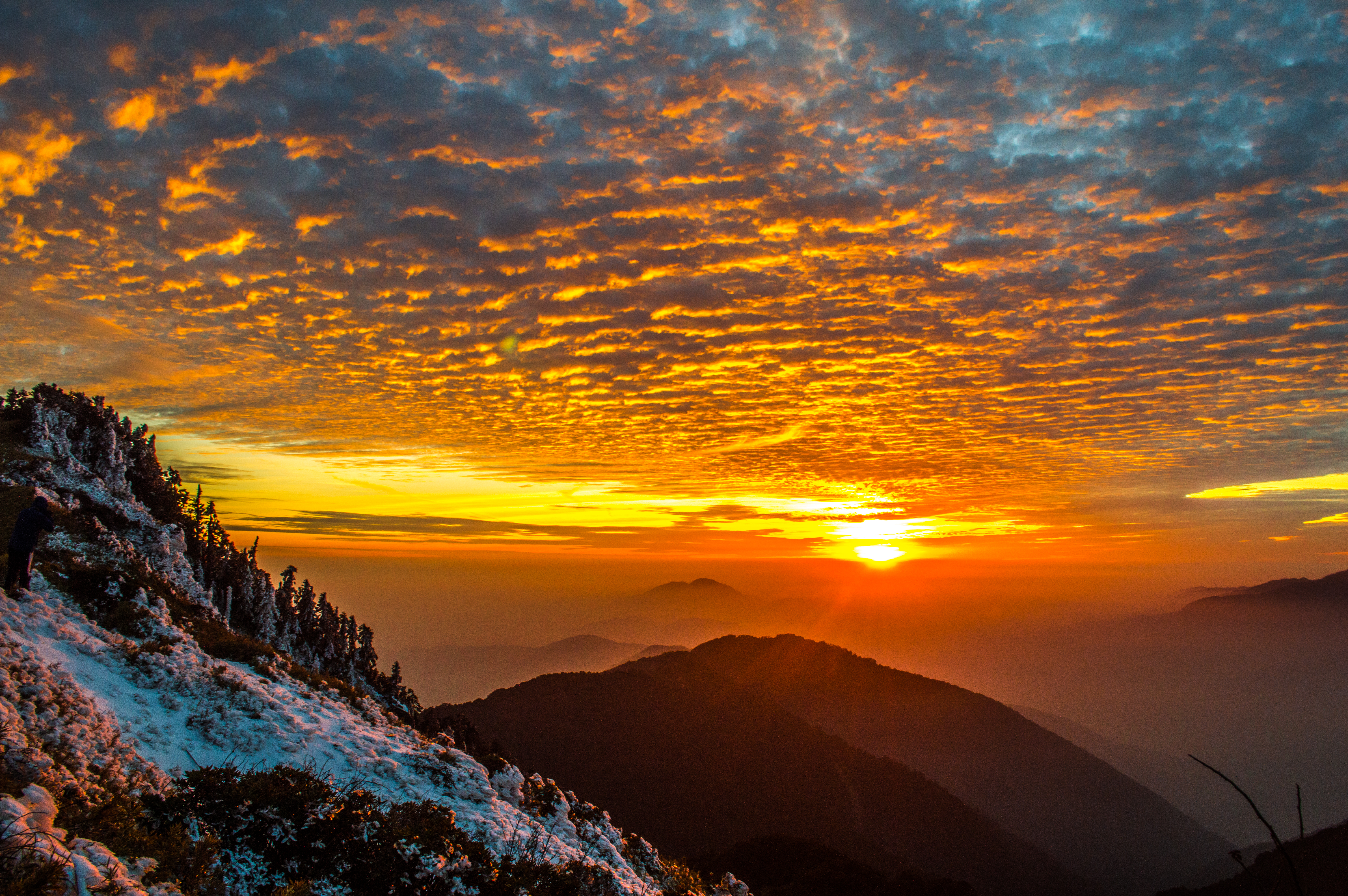 The dawn at Hehuan East Peak.